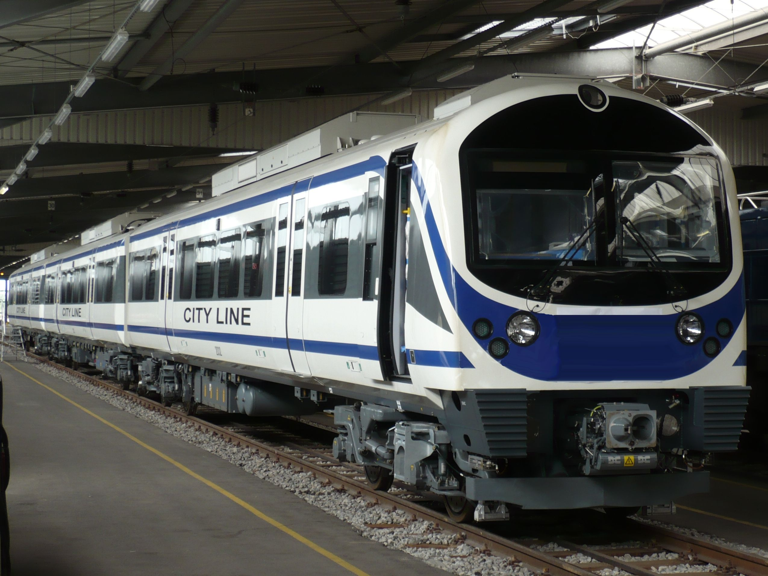 Bangkok Airport Link Express in Prüfcenter Wegberg-Wildenrath, Germany.